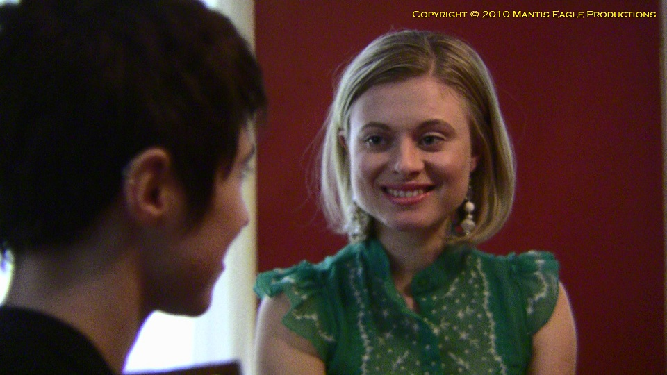 Actress Bonnie Piesse and Melissa Navia in a scene from Love Eterne. Photo by Joseph Villapaz. This photo may be used, modified and published for any purpose, only if the photographer is visibly credited in each instance in which it is used. (See licensing information below.) Publication of this photo without proper attribution constitute copyright infringement. For more information on my photos, you can contact me here.